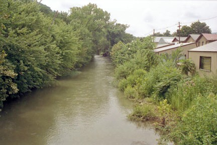 New Creek as viewed near its mouth in Keyser, West Virginia